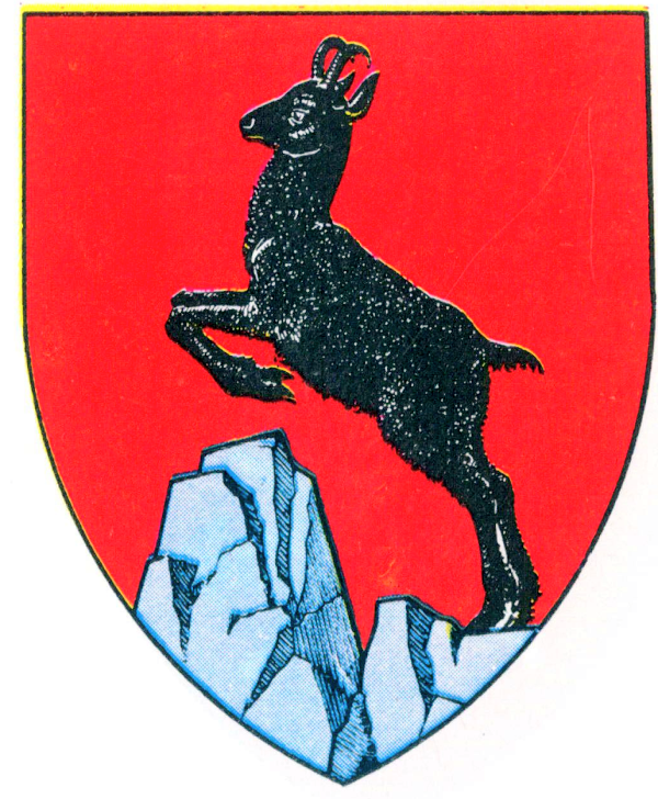 Interwar coat of arms of Neamț County, Kingdom of Romania.